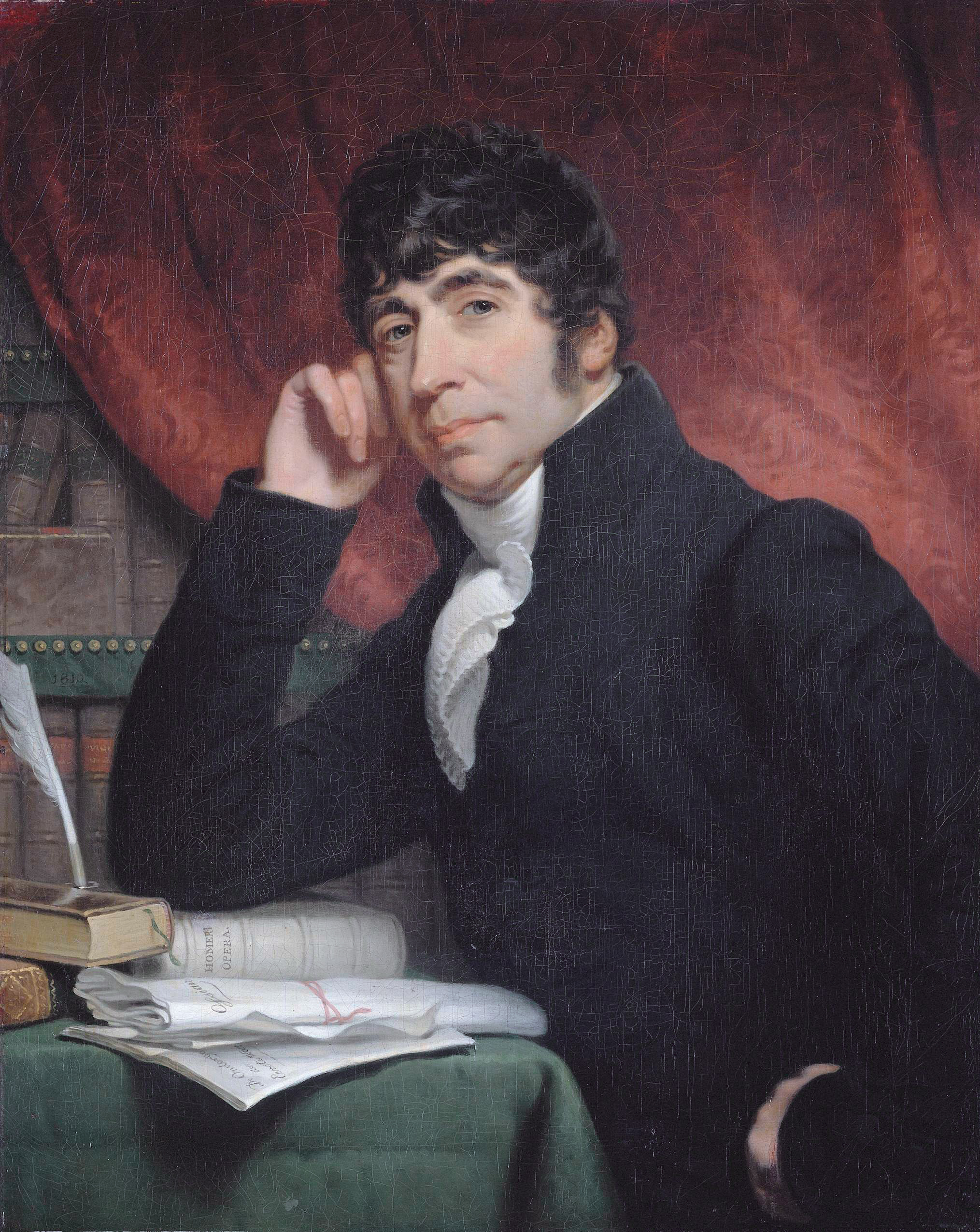 Willem Bilderdijk (1756-1831) oil on canvas 79 x 63 cm signed : door C.H. Hodges in't Jaar MDCCCX